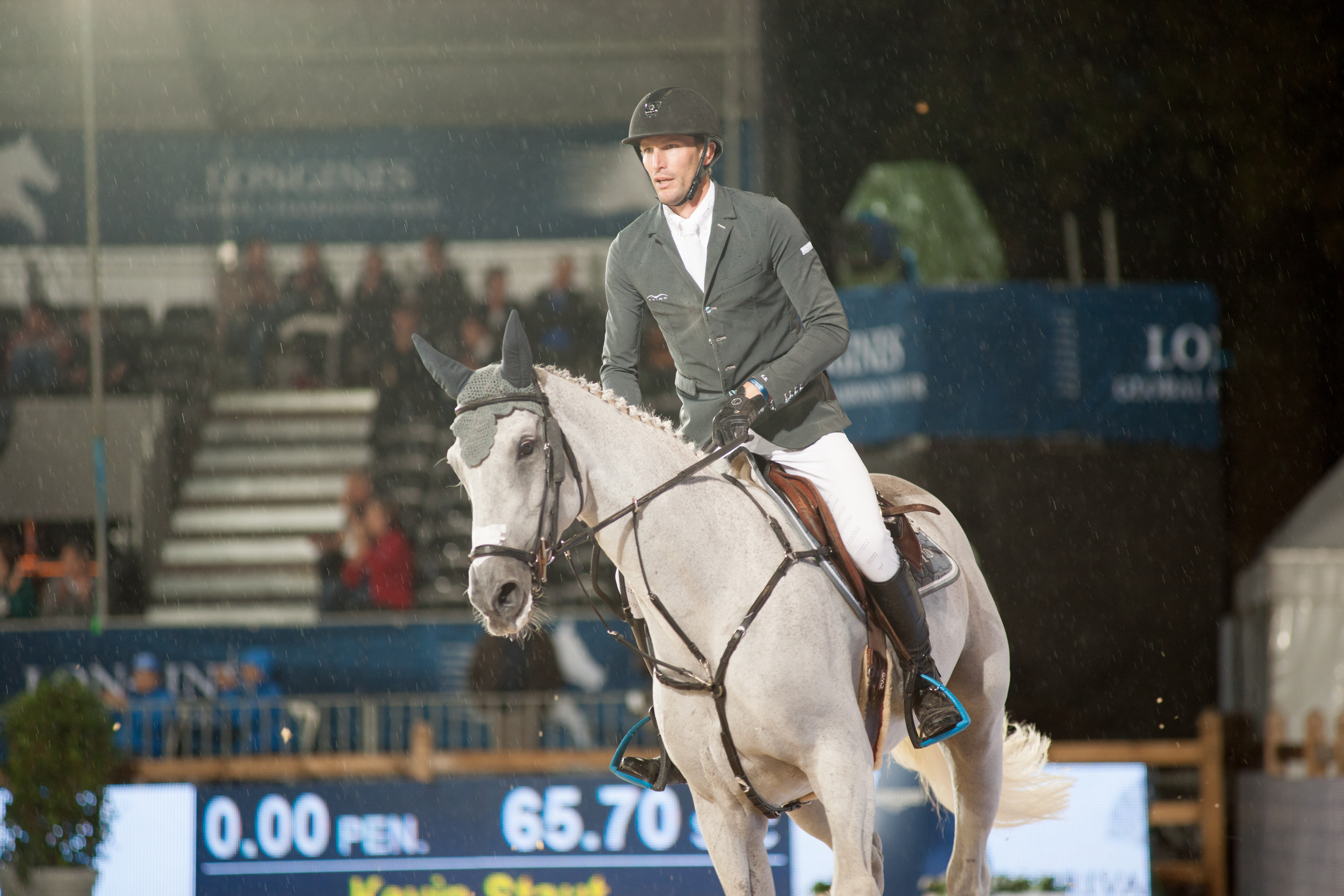 The making of this document was supported by Wikimedia CH. (Submit your project!) For all the files concerned, please see the category Supported by Wikimedia CH. 2013 Longines Global Champions Tour